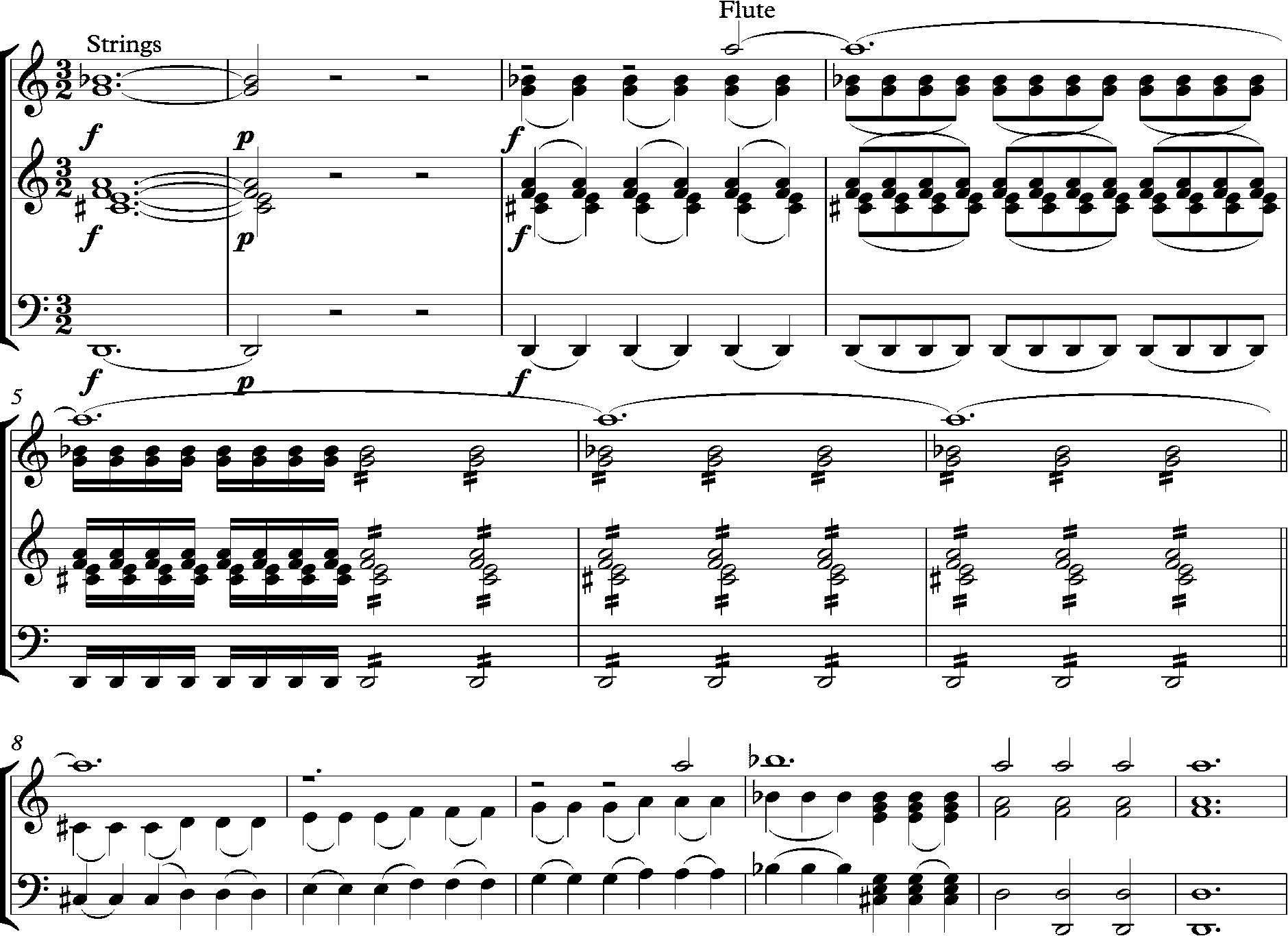 Rebel, les Elemens, opening